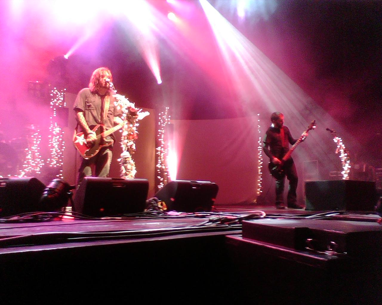 Seether performing at the Wiltern in Los Angeles on Friday April 18, 2008